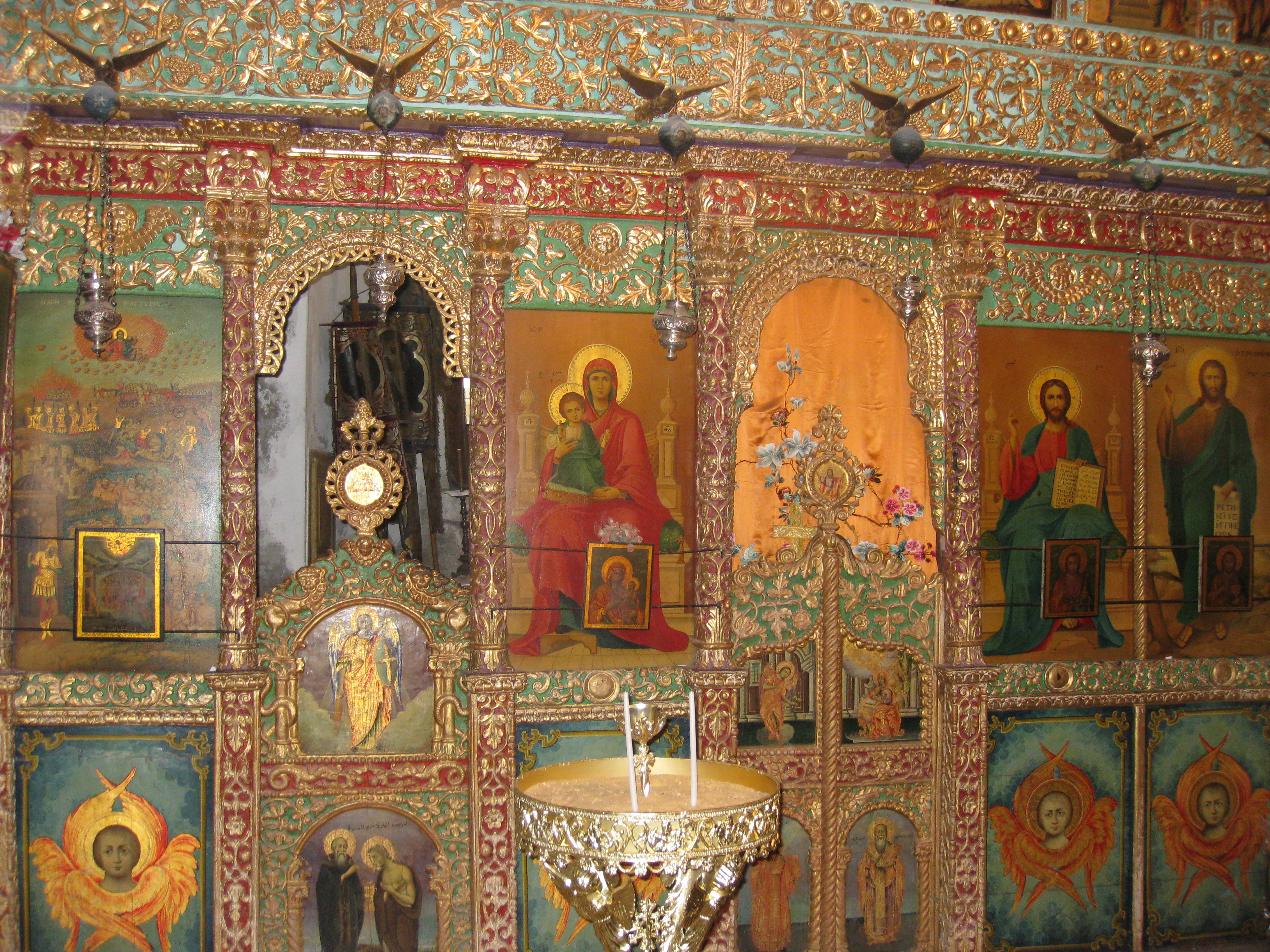 Chapel of the Forty Martyrs in the Church of the Holy Seplucher